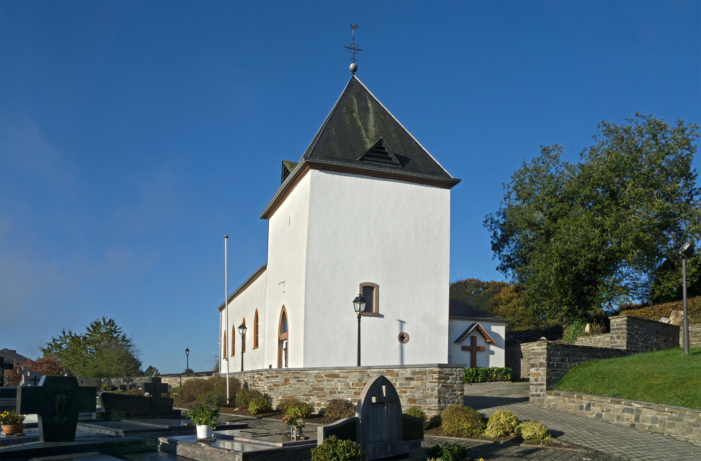 Church of Oberwampach